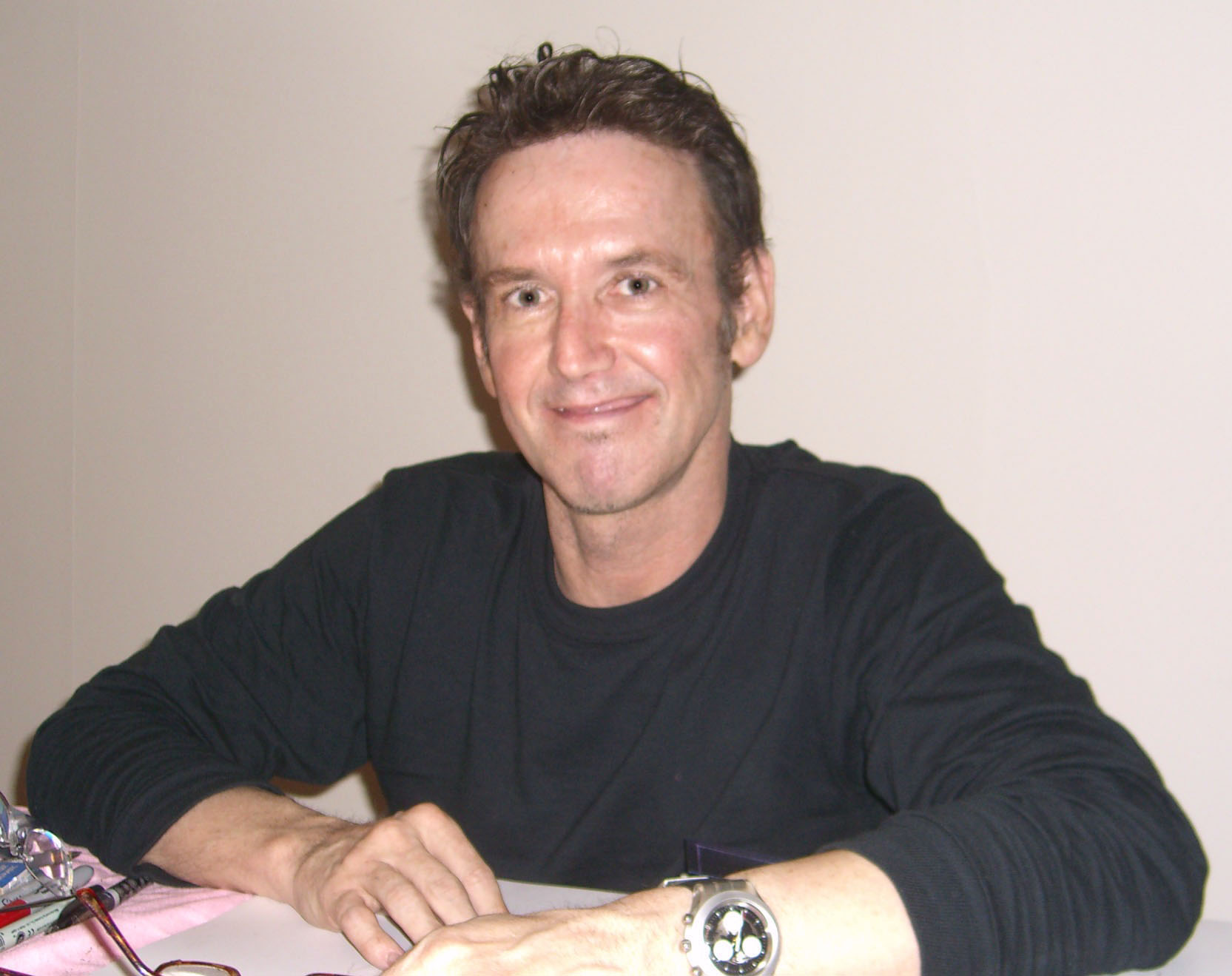 Comic book creator Bill Sienkiewicz at the November 2008 Big Apple Convention in Manhattan. Photo by Luigi Novi. This photo may be used, modified and published for any purpose, only if the photographer is visibly credited in each instance in which it is used. (See licensing information below.) For more information on my photos, you can contact me here.